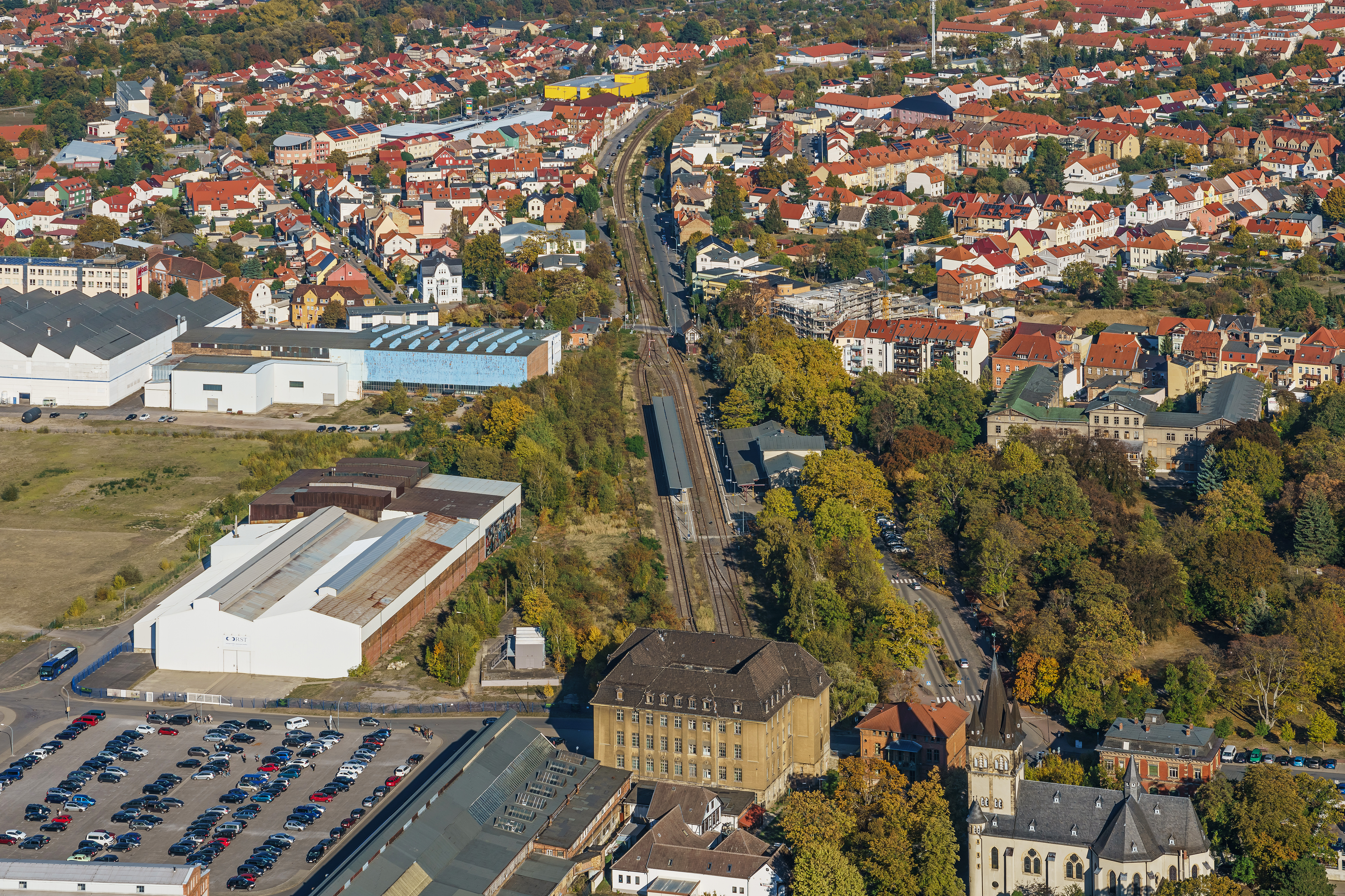 View from the chairlift in Thale, Germany